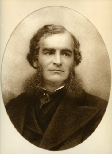 Portrait of the museum founding president William T. Blodgett, circa 1860